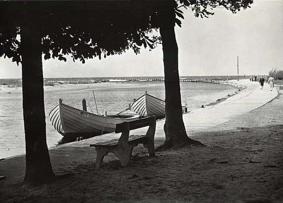 Promenade of the fishing seaport, by the Rega river in Mrzeżyno